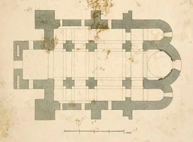 The plane of Church of Lutsk Orthodox Fellowship of True Cross